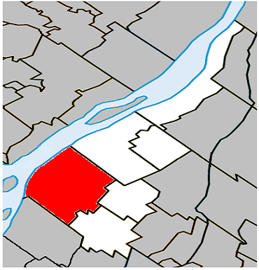 Location of Varennes, Quebec within Lajemmerais Regional County Municipality.